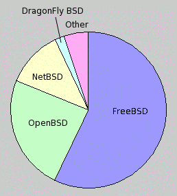 Contents 1 Explanation of chart 2 Summary 3 Licensing 4 Original upload log 5 Original upload log Explanation of chart The BSD Certification Group, after advertising on a number of mailing lists, surveyed 4330 BSD users, 3958 of whom took the survey in English. Other languages offered were Brazilian and European Portuguese, German, Italian, and Polish. Note that there was no control group or pre-screening of the survey takers. Those who checked "Other" were asked to specify that operating system. Note that the operating system survey takers filled in for "other" may or may not be considered BSD operating systems by most people. Note that because survey takers were permitted to select more than one answer, the percentages which were used to size the sections are out of the total answers. Note that if a survey taker filled in more than one choice for "other", this is still only counted as one vote for "other" on this chart. Summary Made myself based on Image:Bsdusage.gif NicM 09:26, 23 April 2006 (UTC).